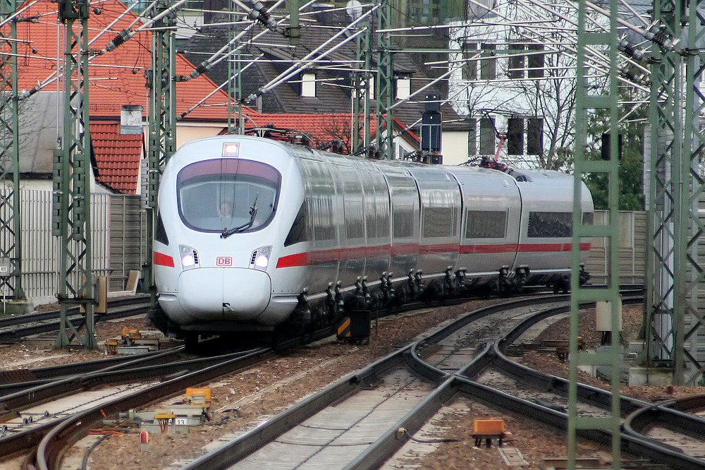 An ICE T ("T" for tilting, DB class 411) leaves a curve. Note the different inclinations of the cars.